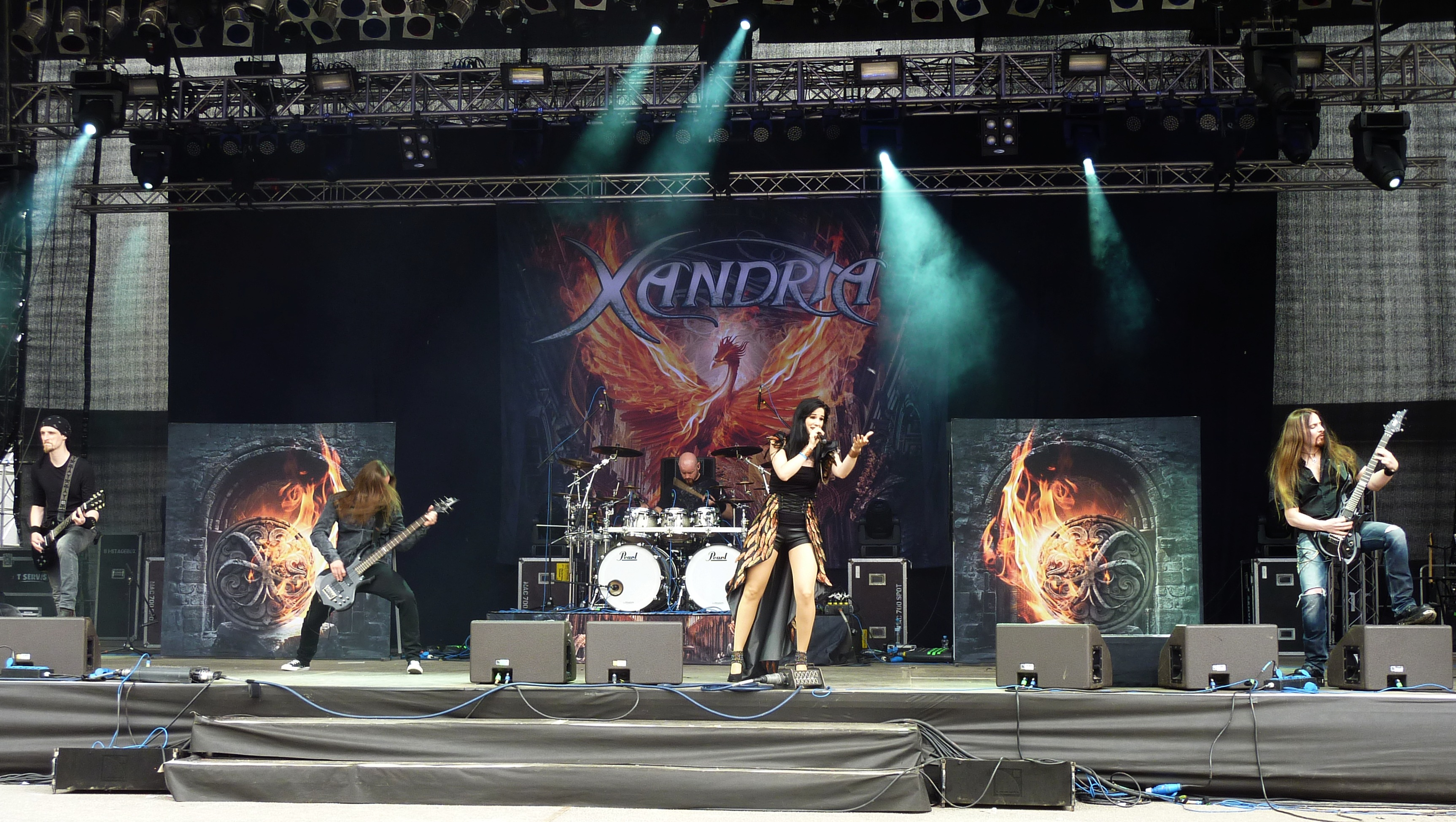 Xandria at Metalfest Open Air 2014, Pilsen, Czech Republic